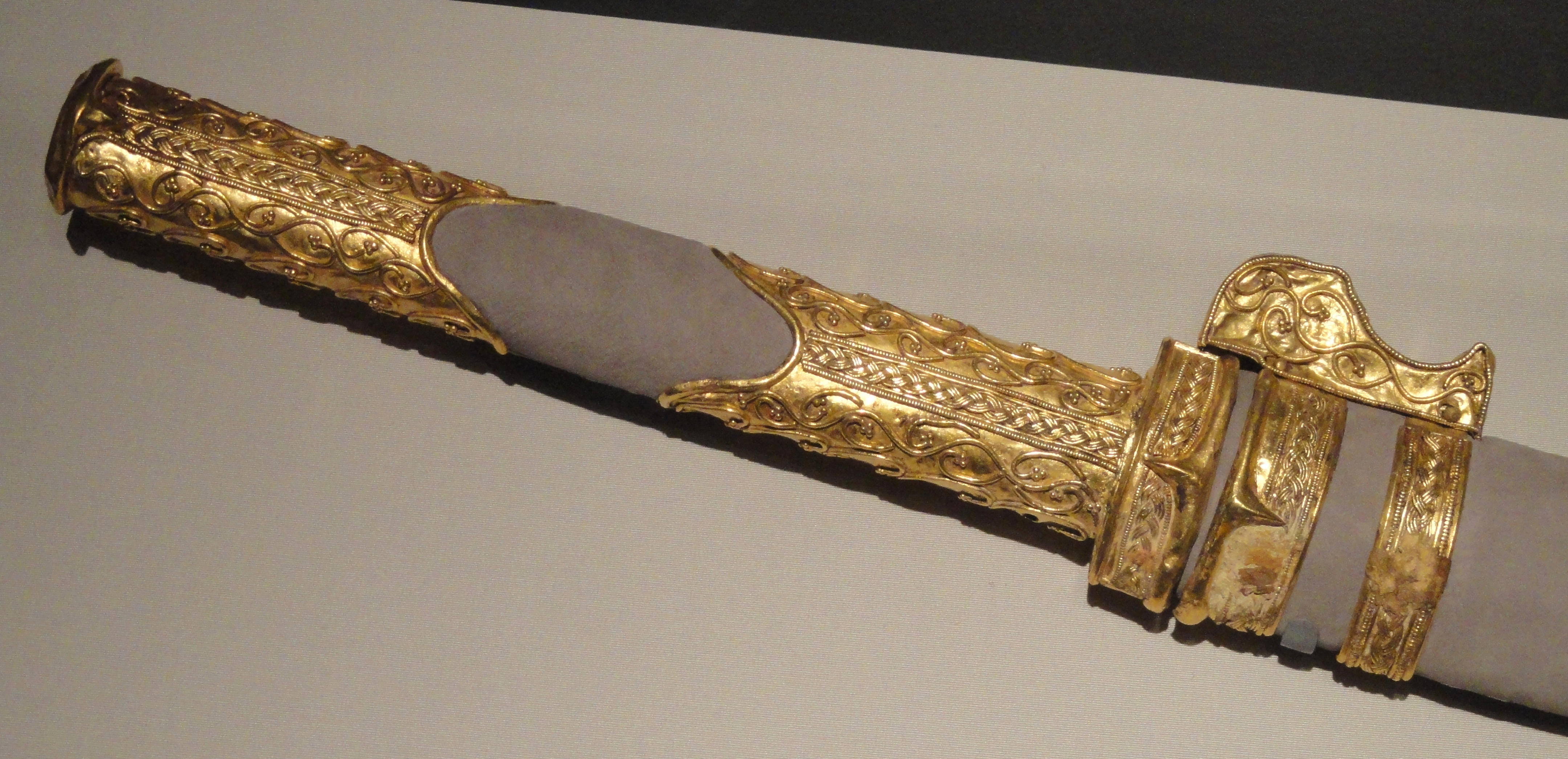 Exhibit in the Arthur M. Sackler Gallery, Washington, DC, USA. This artwork is old enough so that it is in the public domain.